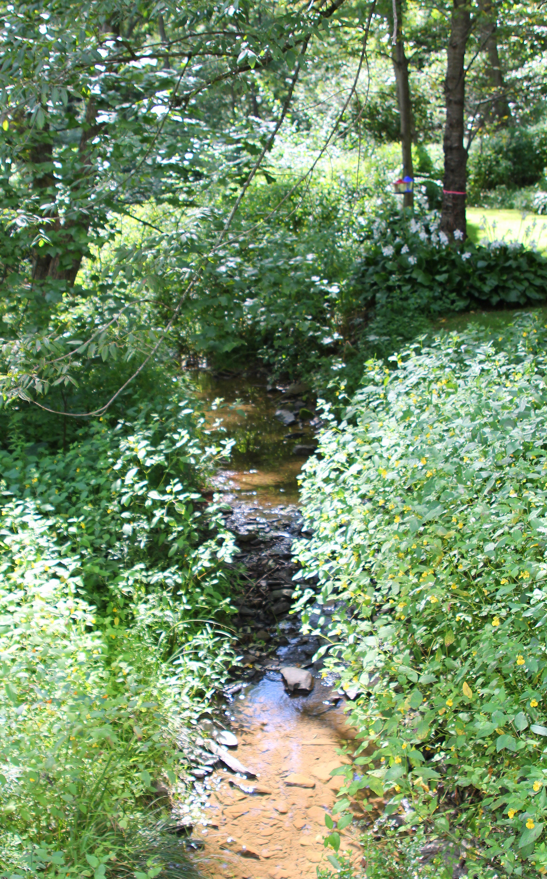 Kipps Run